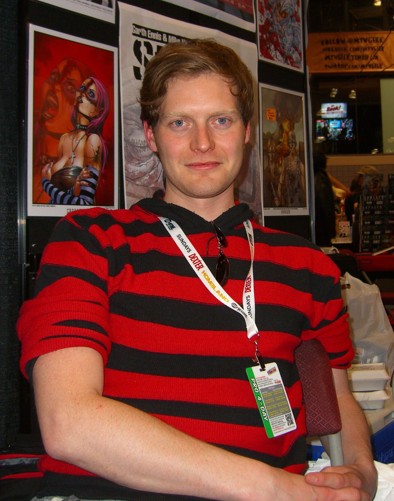 Comics creator Simon Spurrier on Day 2 of the 2012 New York Comic Con, Friday October 12, 2012 at the Jacob K. Javits Convention Center in Manhattan. This photo was created by Luigi Novi. It is not in the public domain, and use of this file outside of the licensing terms is a copyright violation.